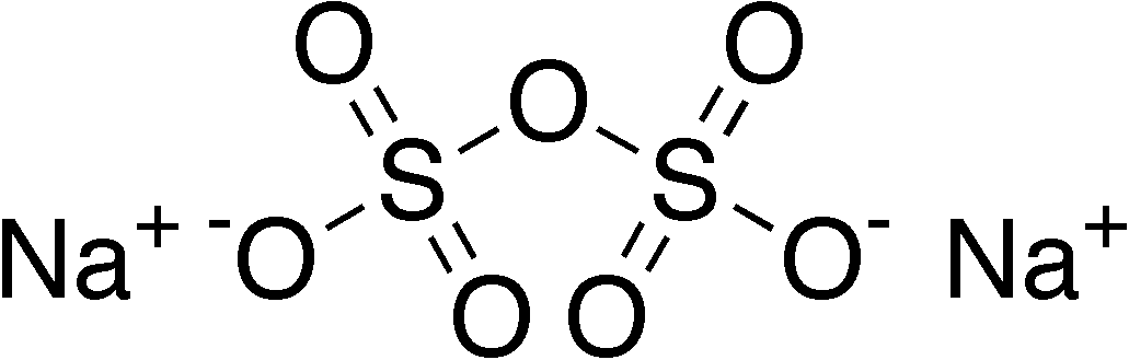 chemical structure of sodium pyrosulfate